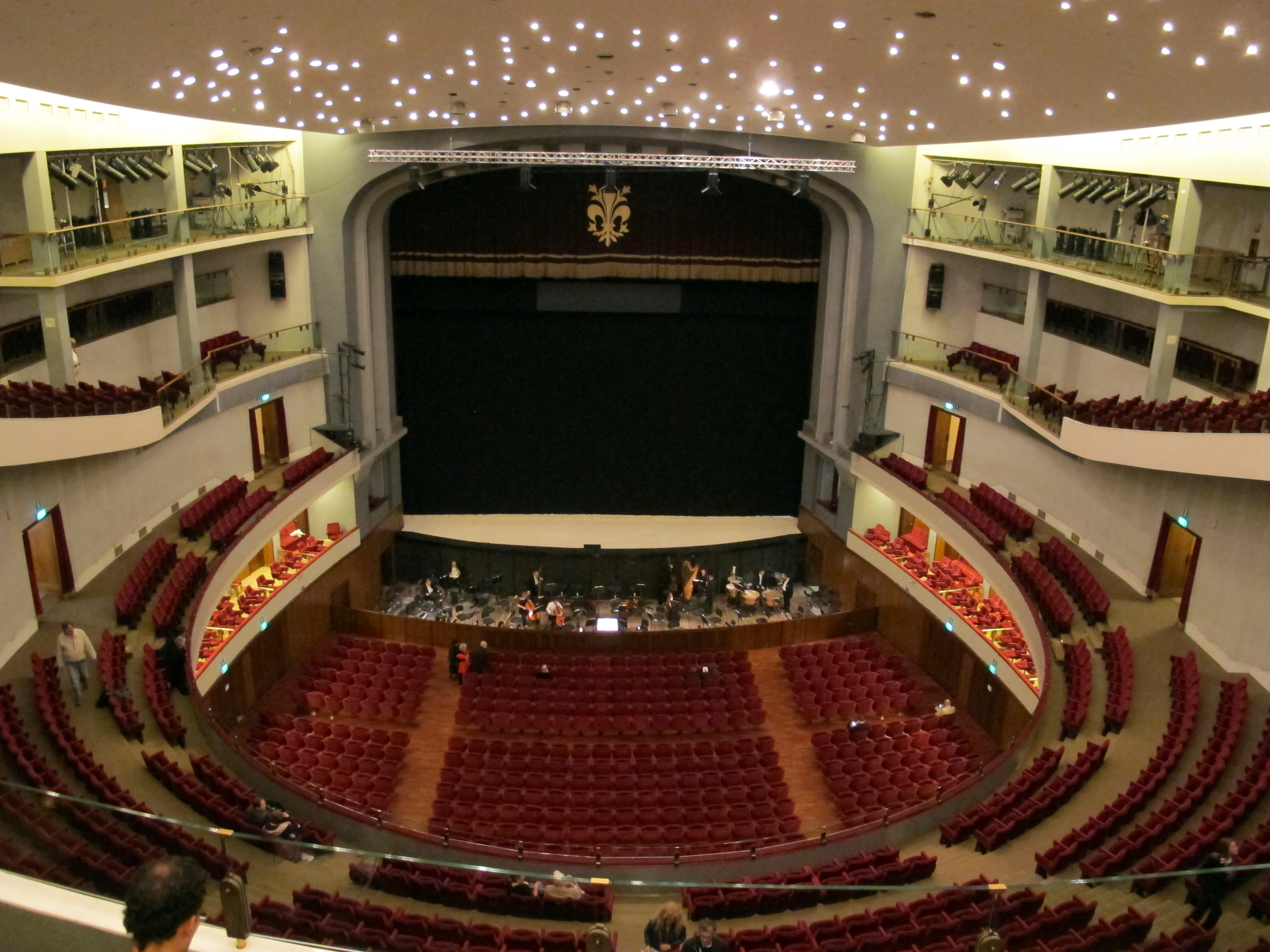 Teatro Comunale (Florence) - Interior